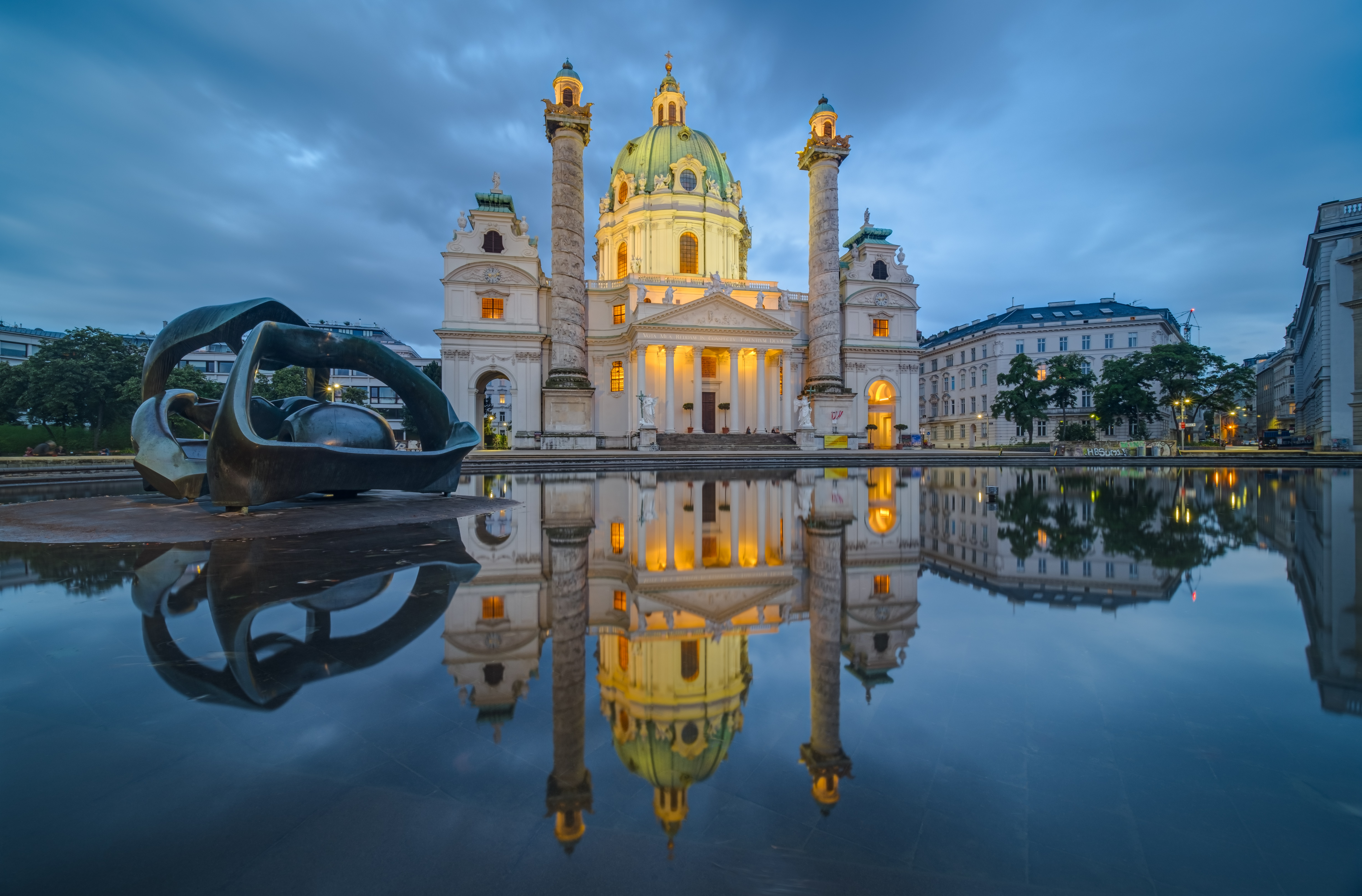 The Rektoratskirche St. Karl Borromäus, Vienna, Austria.